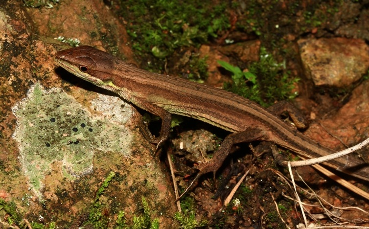 Takydromus septentrionalis